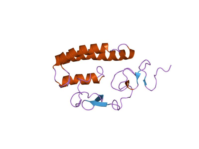 Cartoon representation of the molecular structure of protein registered with 2fyl code.